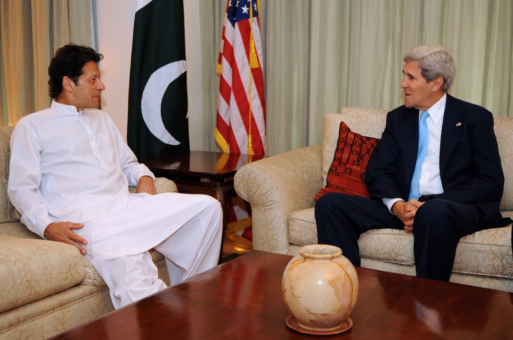 U.S. Secretary of State John Kerry meets with Pakistan Tehreek-i-Insaf Party President Imran Khan during a visit to Islamabad, Pakistan, on August 1, 2013. [State Department photo/ Public Domain]